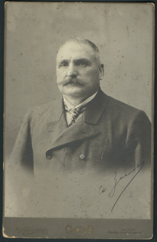 Stoyan Zaimov.